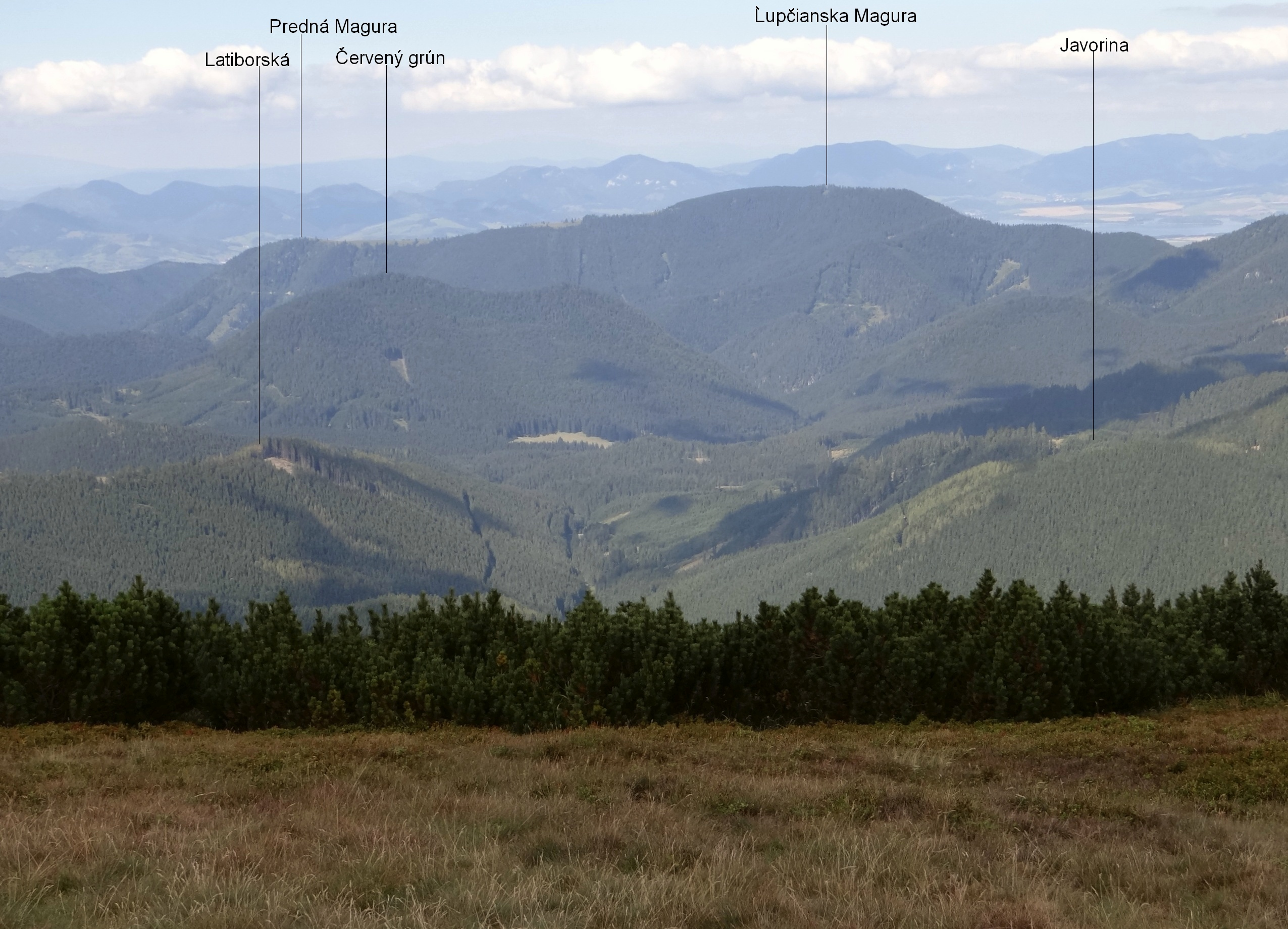 View from Latiborská hoľa